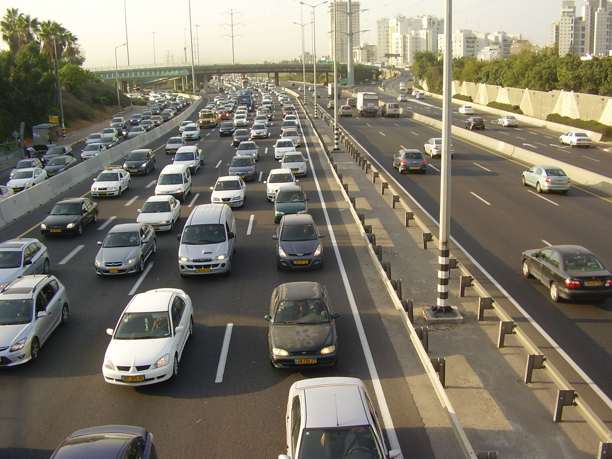 Traffic Jam in Geha road